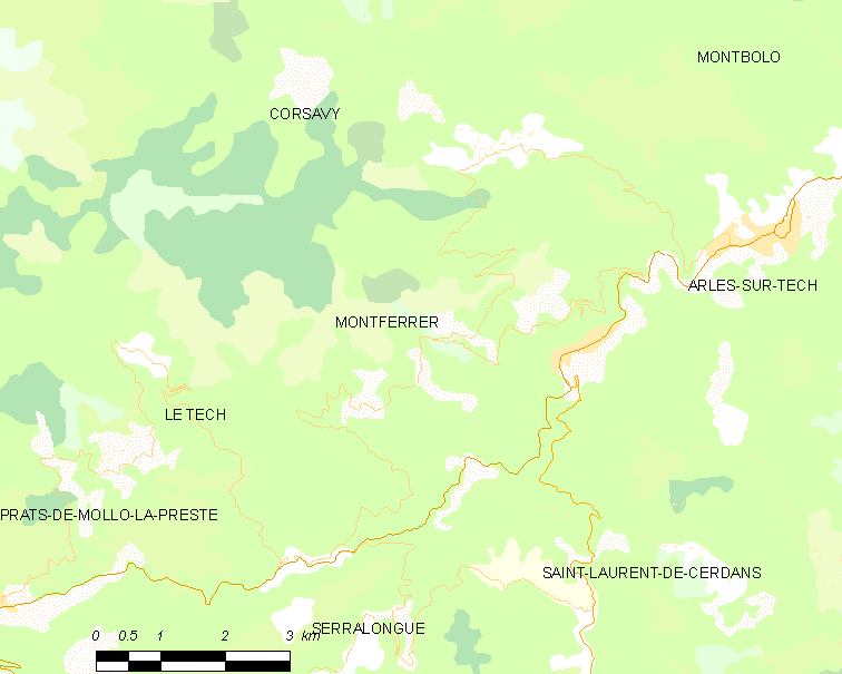 Map of French municipality